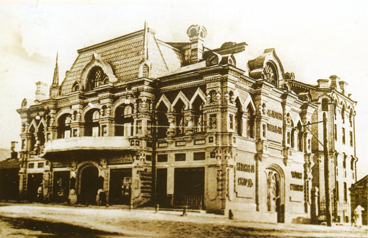 Lukianovskiy public house, Kiev, Ukraine.